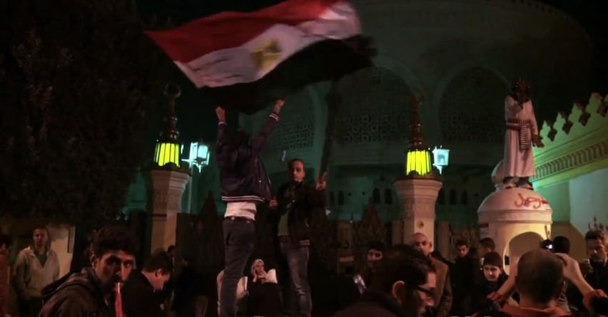 Anti-Morsi protest in December 2012